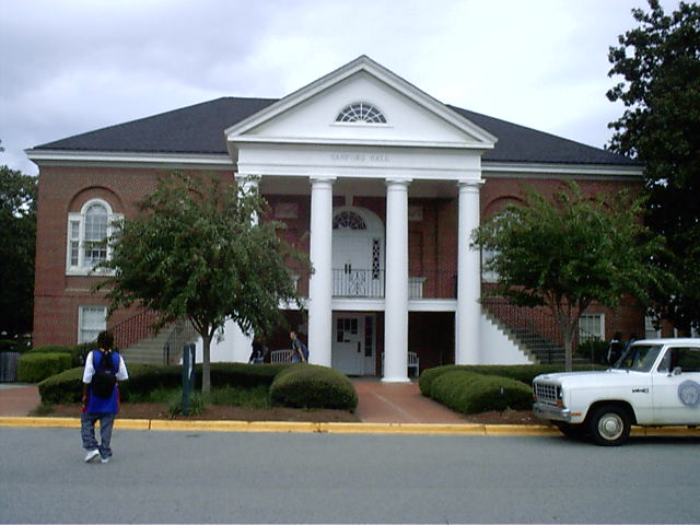 Middle Georgia College Sanford Hall, Cochran, Georgia. Author: Ronald Edward Daniels Taken October 2005.